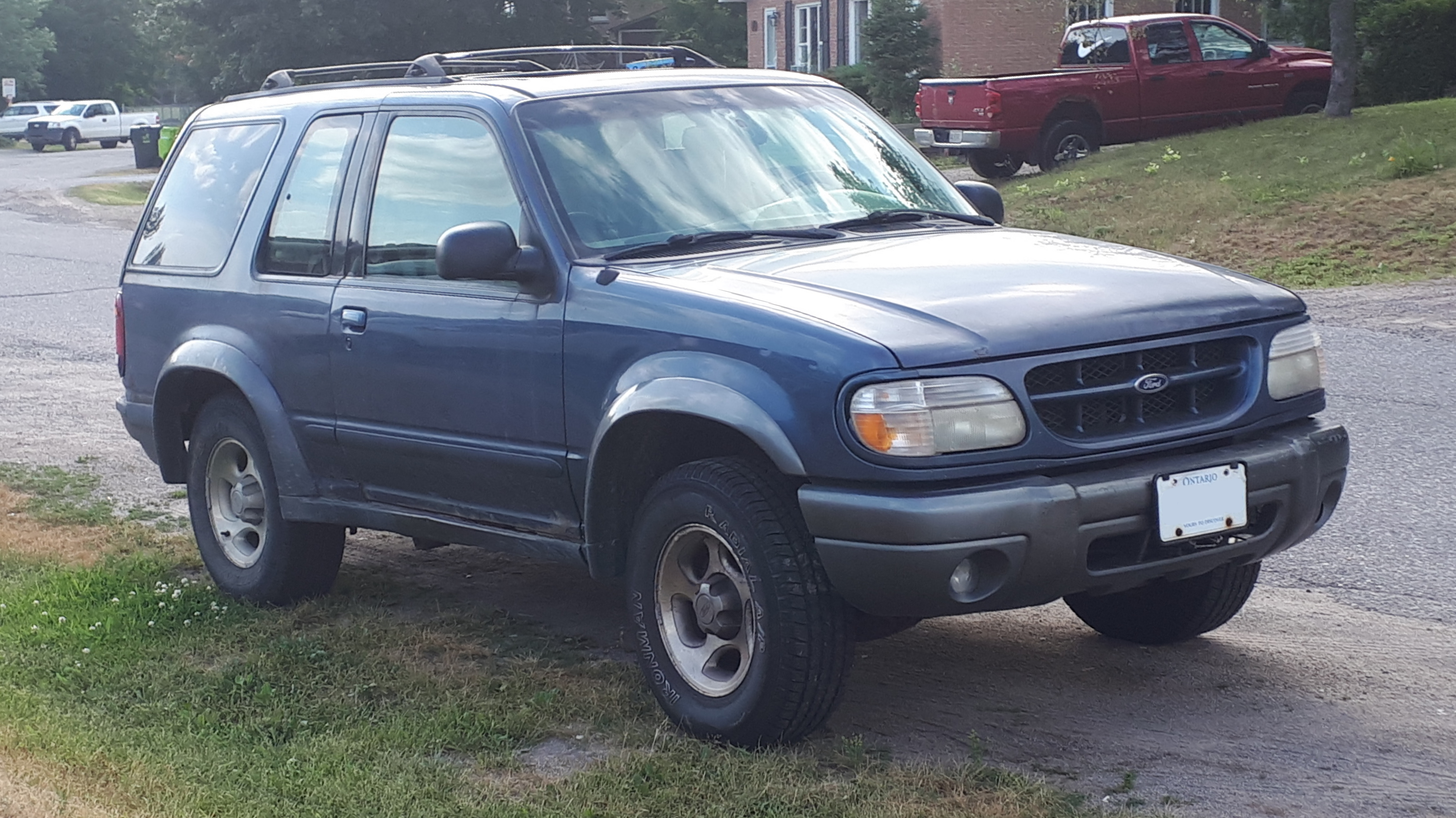 1995-2000 Ford Explorer Sport photographed in Sault Ste. Marie, Ontario, Canada